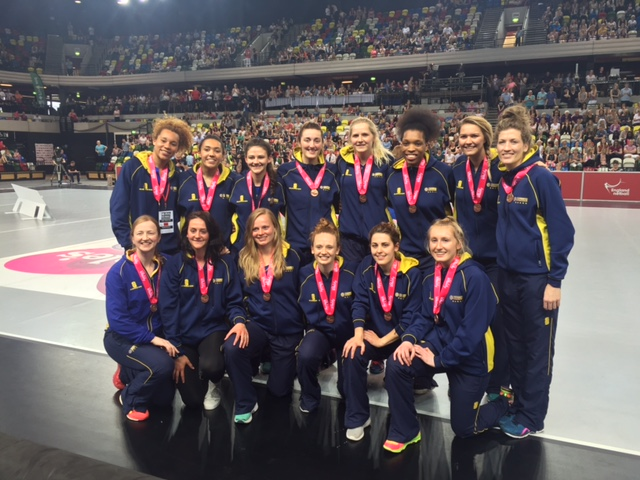 Team Bath Netball with their bronze medals from the 2016 Vitality Netball Superleague season